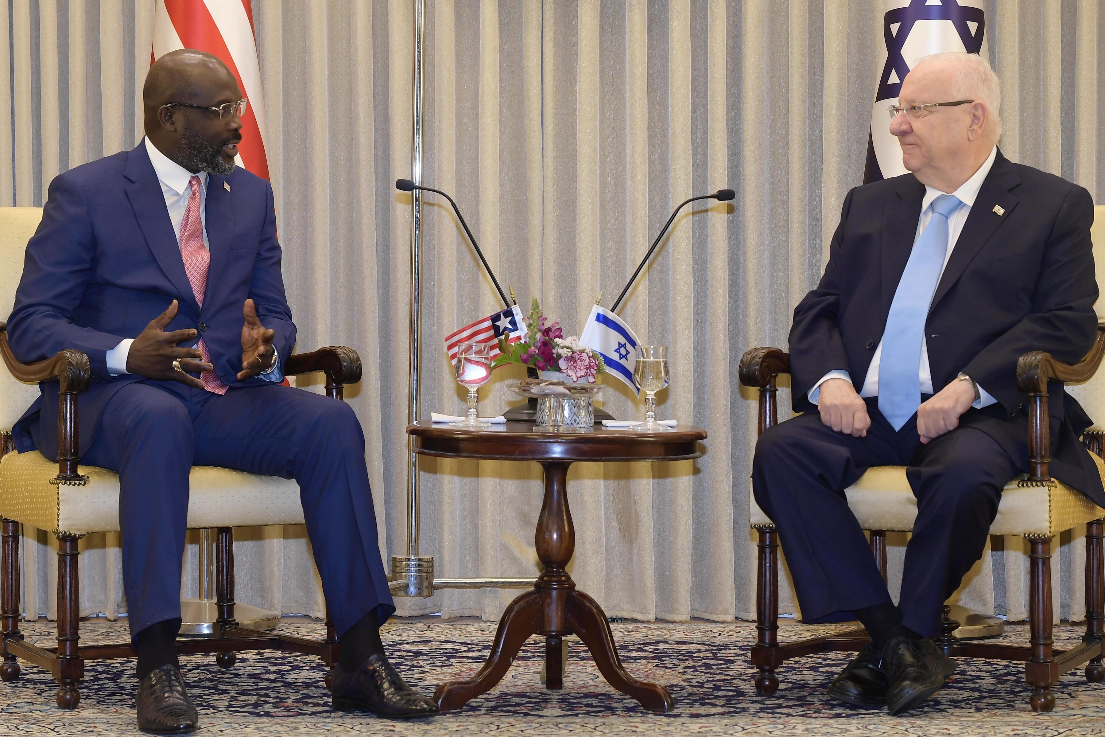 The President of Israel, Reuven Rivlin, at a working meeting with the President of Liberia, George Mena Wah, who visited Israel. Thursday, February 28, 2019. Photo Credit: Amos Ben Gershom / GPO.